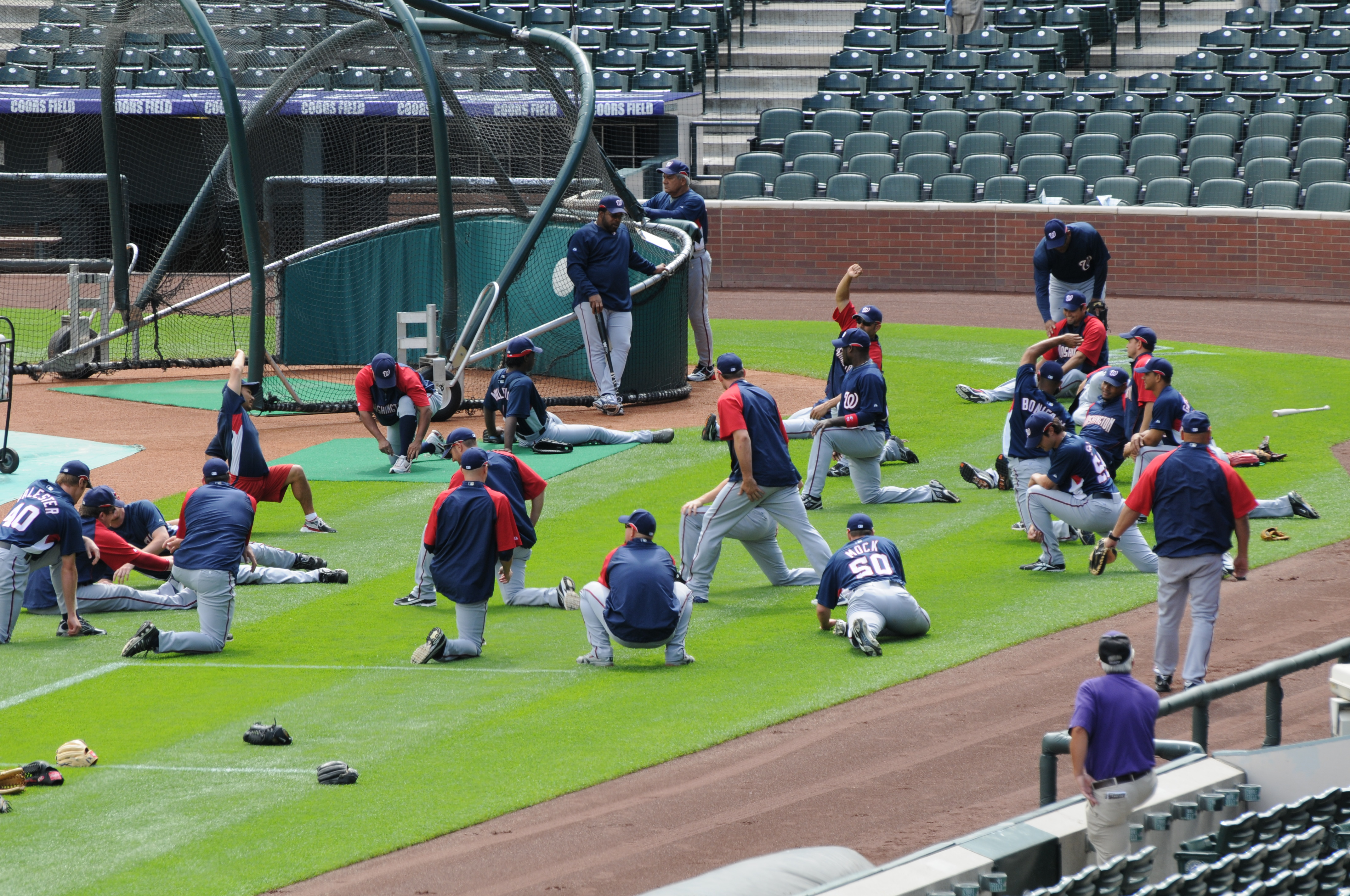 Description own workSource I created this work entirely by myself.Author Onetwo1 (talk) 15:40, 8 August 2008 . . Onetwo1 . . 4,288×2,848 (3.04 MB) own work